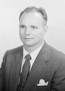 A 1956 black and white portrait of George Pearce, MHR for Capricornia